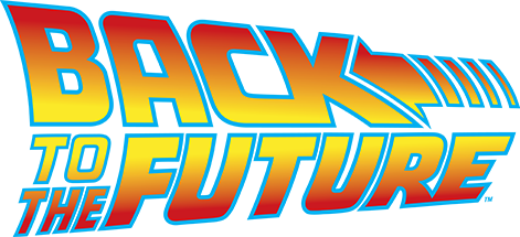 Logo for Back to the Future series